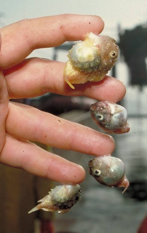 Toad Lumpsuckers (Eumicrotremus phrynoides - middle two) and Pacific Spiny Lumpsuckers (Eumicrotremus orbis - top and bottom), demonstrating adhesive pelvic discs